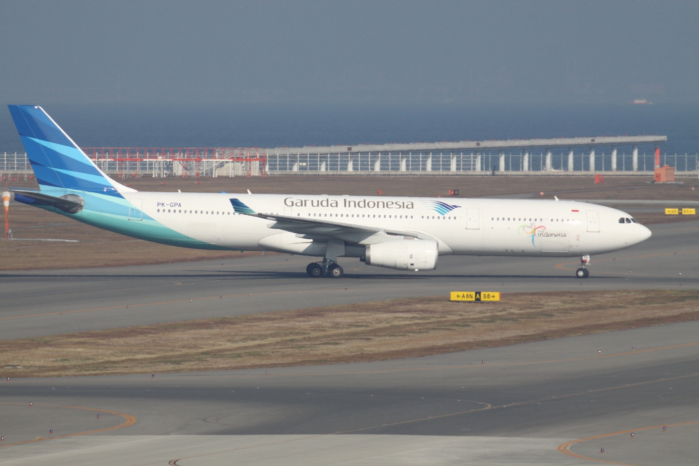 At Nagoya Chūbu Centrair International